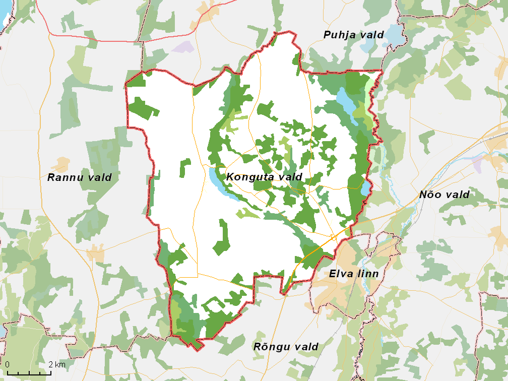 Map of municipality in Estonia